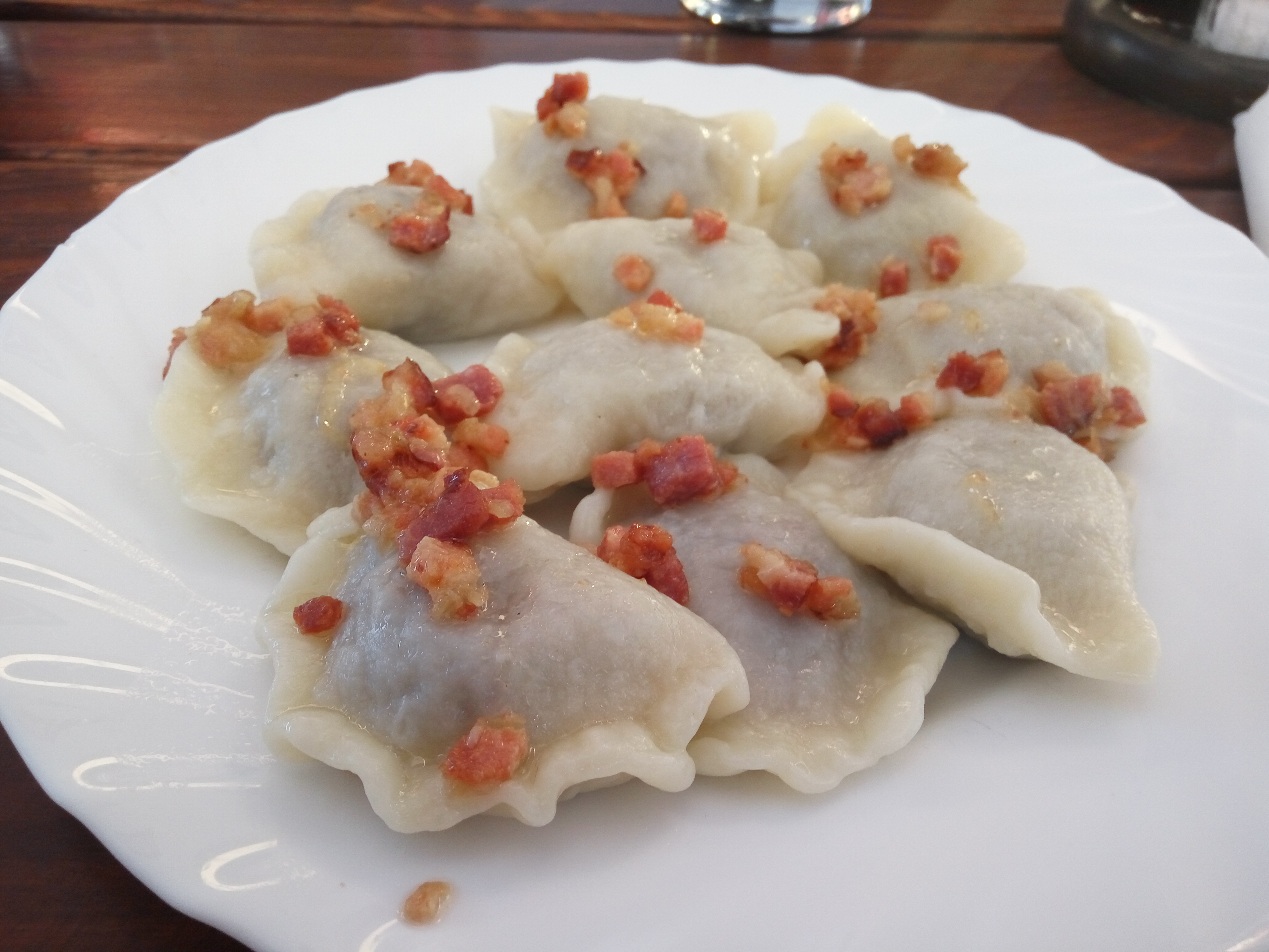 Skwarki on meat pierogi